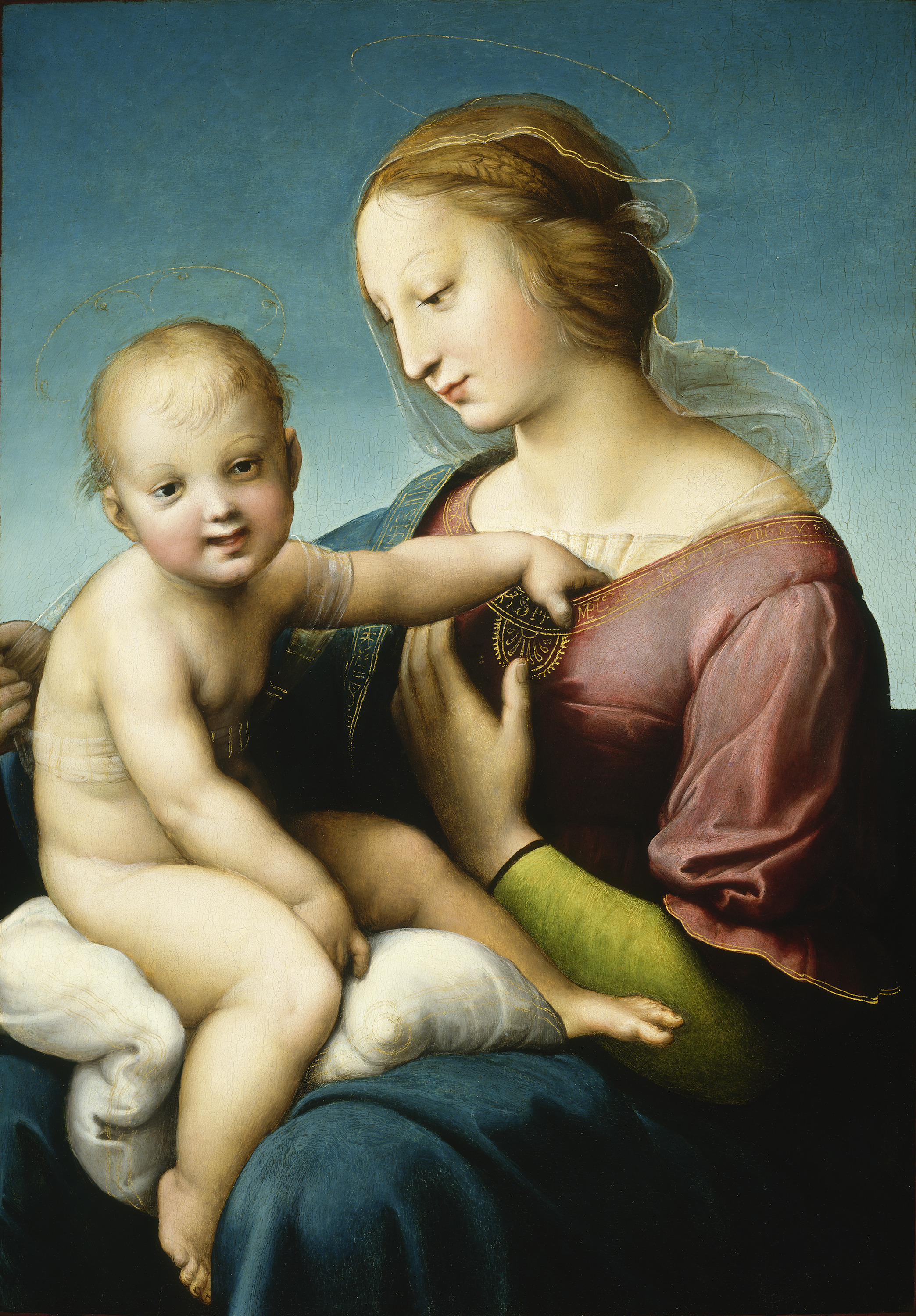 Grande Madonna Cowper - once owned by George Nassau Clavering-Cowper 3rd Earl Cowper